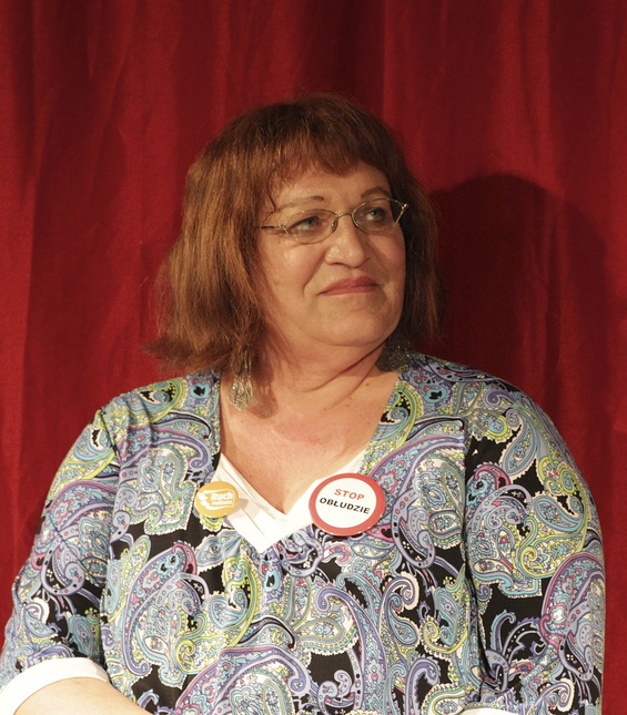 Polish MP Anna Grodzka, member of party Your Movement, pictured in September 2011